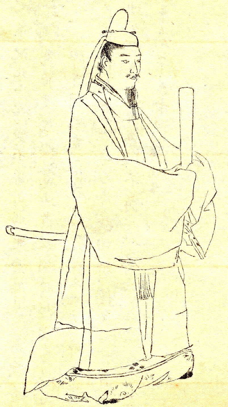 Minamoto no Morofusa(源師房)was a Japanese court noble and poet in Heian period.This picture was drawn by Kikuchi Yōsai(菊池容斎).